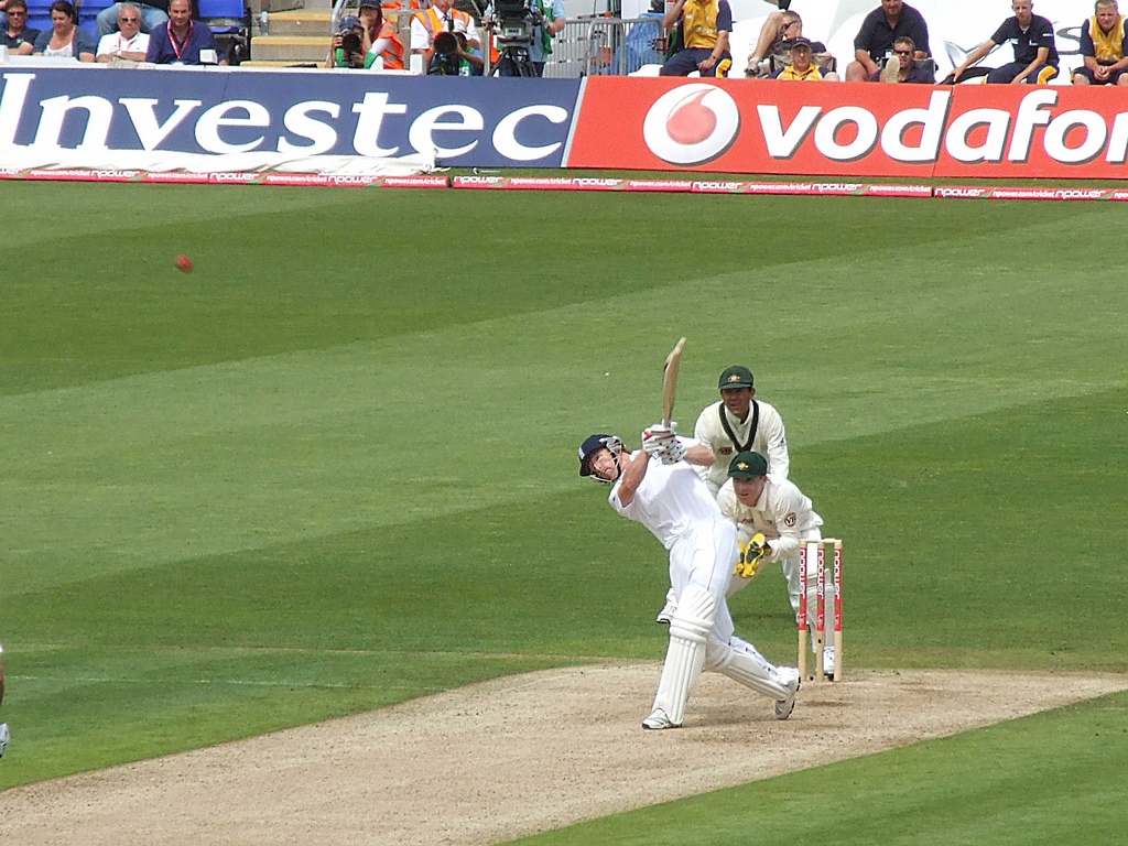 Paul Collingwood battingin the first ashes test at Cardiff